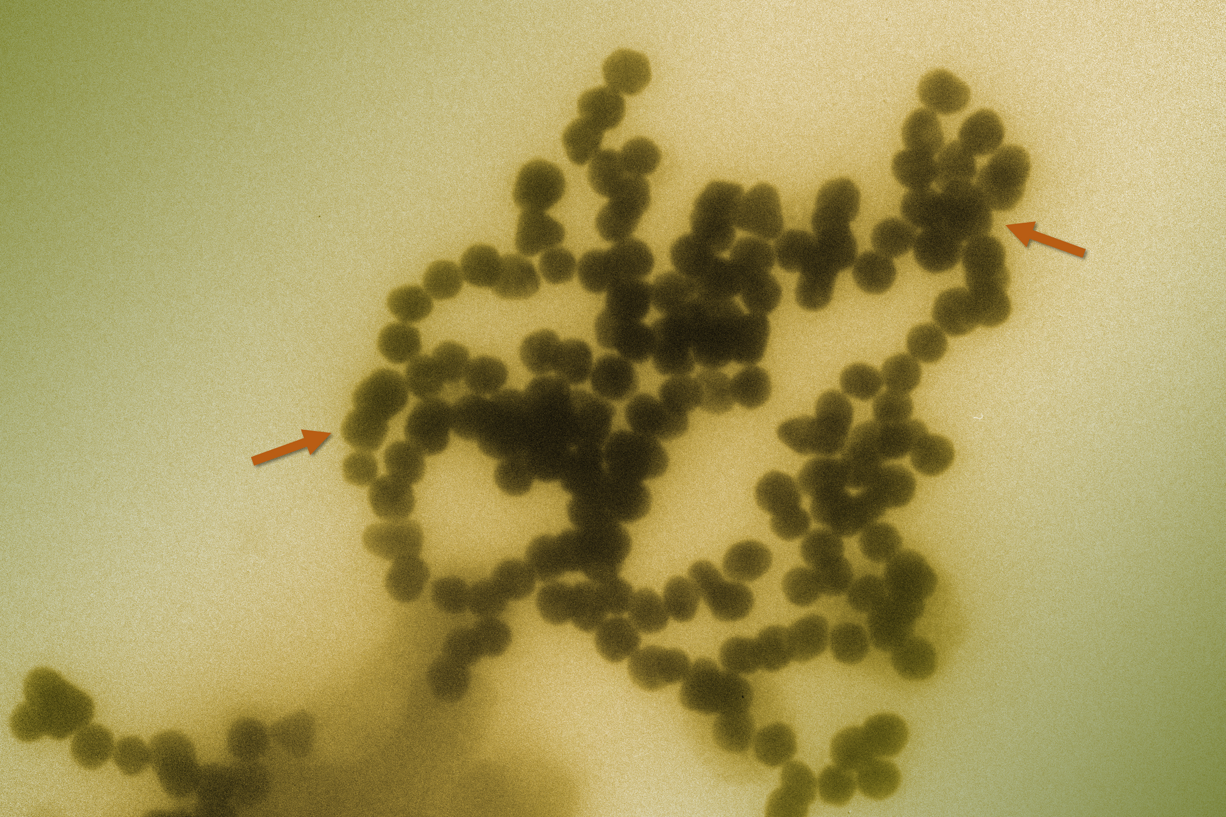 Transmission electron micrograph of gold nanoparticles clustering in solution. The distance between the two red arrows is approximately 280 nanometers, some 200 times smaller than the diameter of a human hair. The individual nanoparticles are approximately 15 nanometers in diameter, about the distance across 40 side-by-side sodium atoms. See also [1] Credit: A. Keene, U.S. Food and Drug Administration Disclaimer: Any mention of commercial products within NIST web pages is for information only; it does not imply recommendation or endorsement by NIST. Use of NIST Information: These World Wide Web pages are provided as a public service by the National Institute of Standards and Technology (NIST). With the exception of material marked as copyrighted, information presented on these pages is considered public information and may be distributed or copied. Use of appropriate byline/photo/image credits is requested.